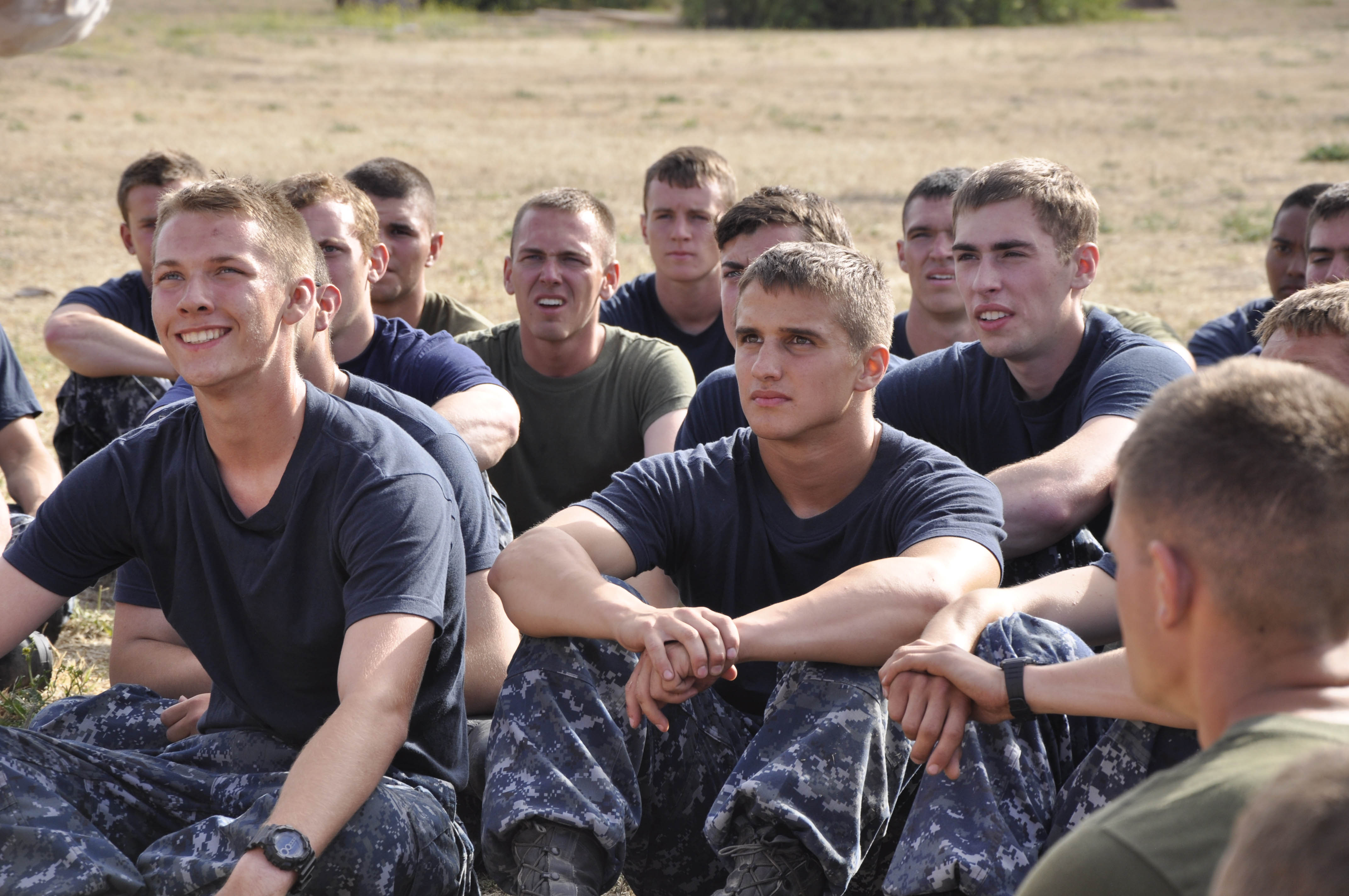 Nrotc Midshipmen, Camp Pendleton, California, June. 4, 2012. Original caption: "Naval Reserve Officer Training Corp's (NROTC) Midshipmen, listen to the words of their commander after participating in urban warfare training, during the Annual Career Orientation for Midshipmen Summer Training Program, at Camp Pendleton, June 14. Midshipmen were introduced to the Marine Corps, military operations in urbanized terrain, counterinsurgency operations at the Infantry Immersion Trainer, the importance of small unit leadership and interactions with Marine officers and non-commissioned officers. They accomplished this by having squad and fire-team level urban scenarios, which integrated role-playing and culture training. ."